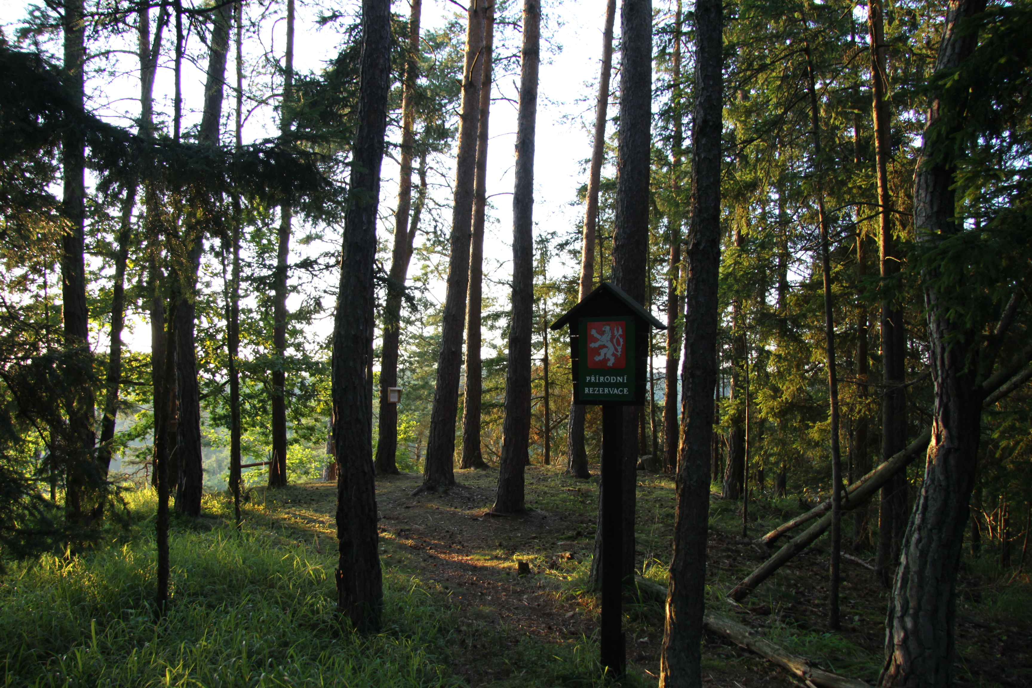 Natural reservation called "Krkavčina" near Oslov village on the bank of Otava River, Písek District, Czech republic. - Google Maps - Google Earth